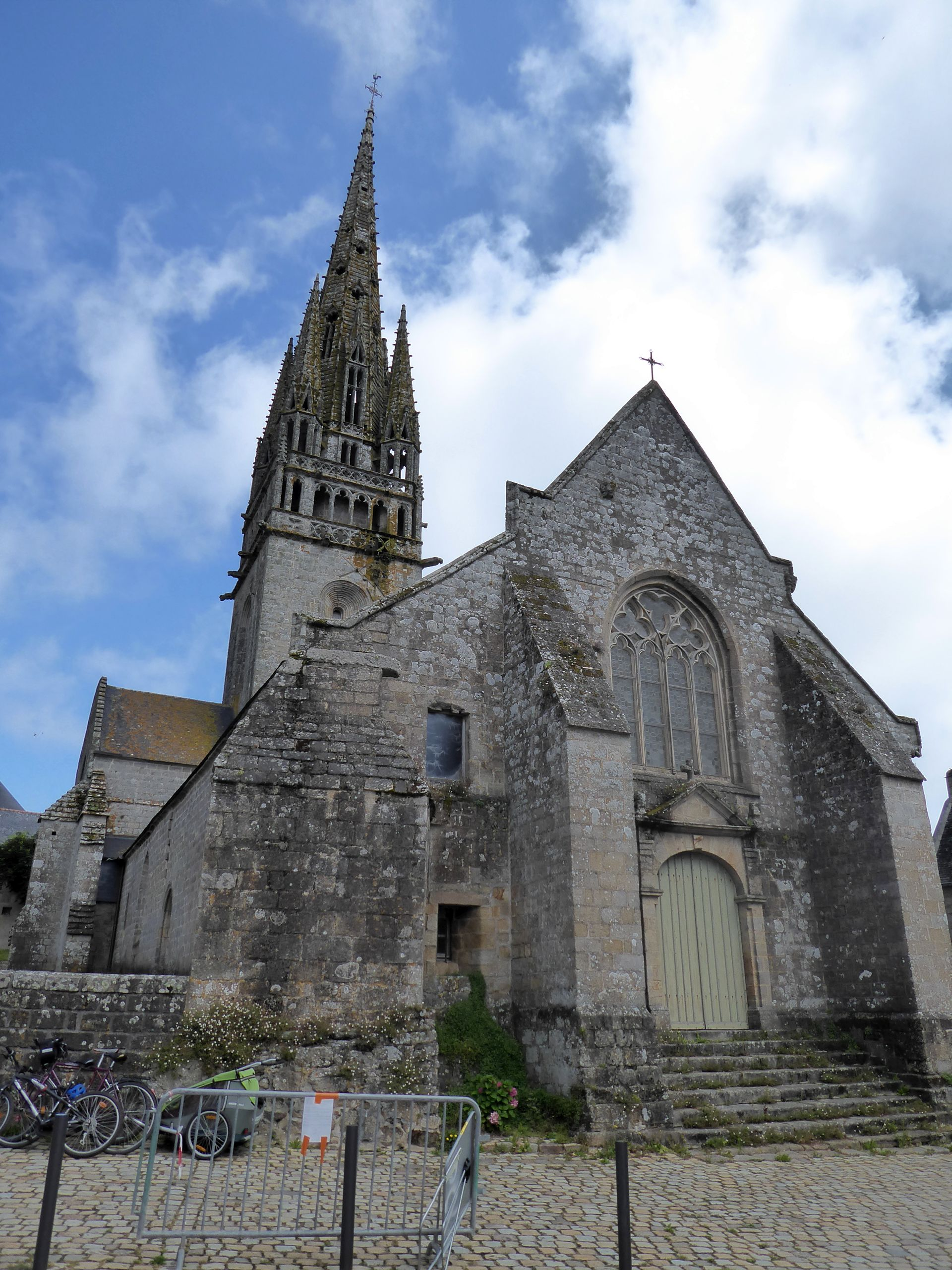 Exterior of Collégiale Notre-Dame-de-Roscudon